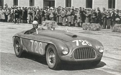 Alberto Ascari (co-driver Senesio Nicolini) for Scuderia Ferrari team in entry #728, which is the 1950 Ferrari 275 S s/n 0030MT. Here in one of this cars absolutely first races, at the Mille Miglia endurance race in Italia on 23–24 April. They did not finish.[1] This car was soon upgraded to a 340 S by Touring, but that is another story.